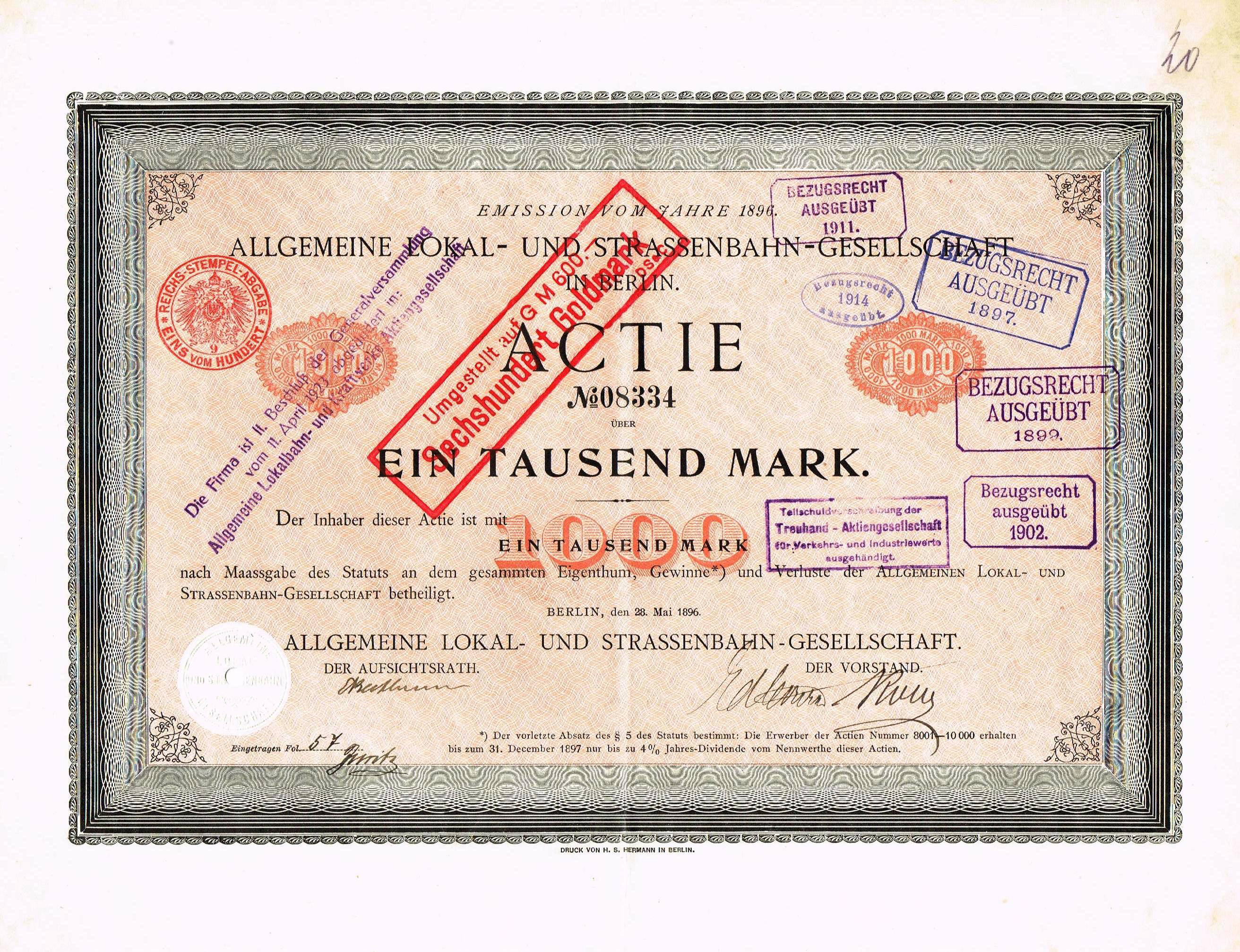 Share of the Allgemeine Lokal- und Strassenbahn-Gesellschaft, issued 28. May 1896, signed by Emil Rathenau